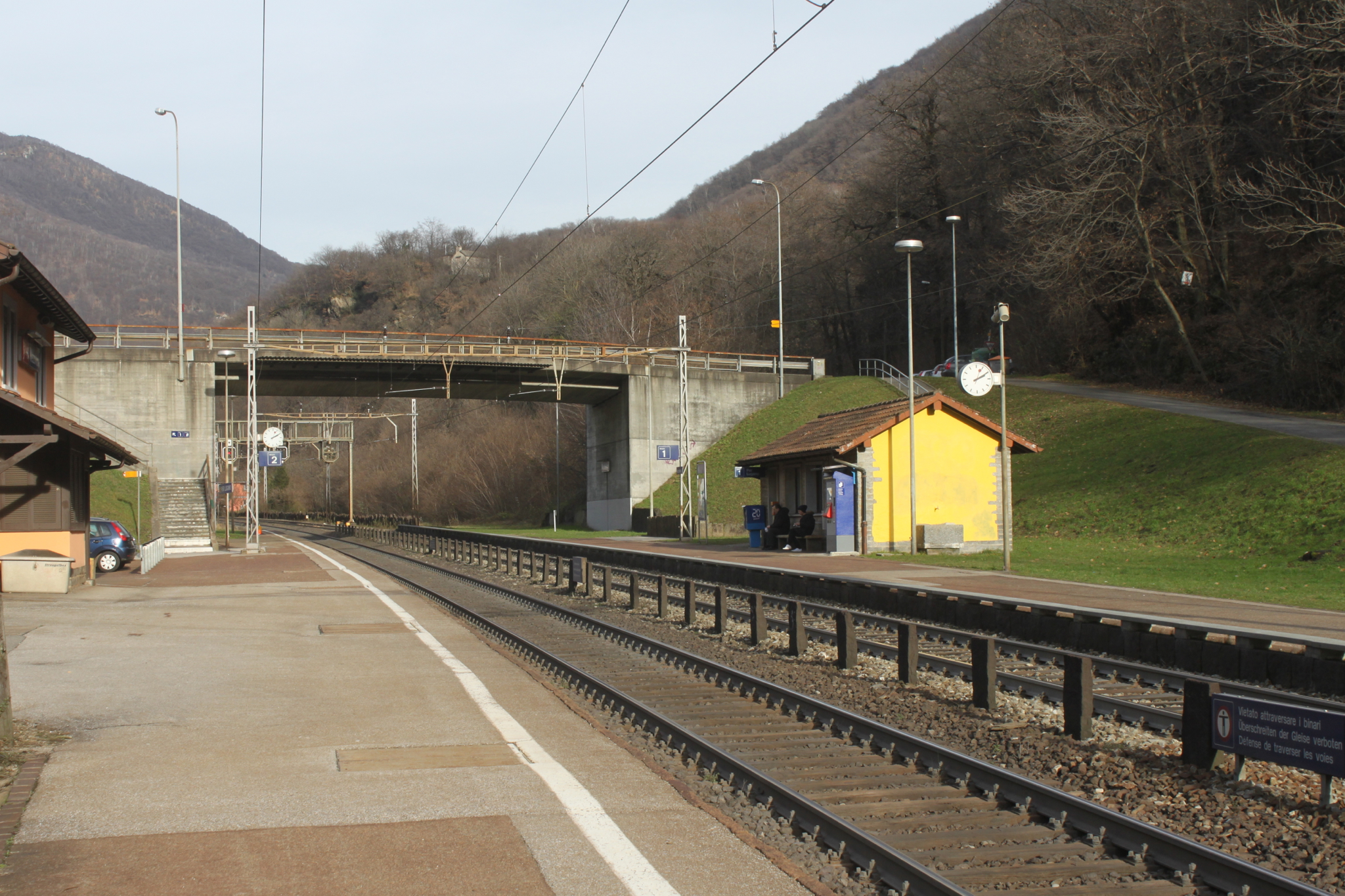 Mezzovico train station.